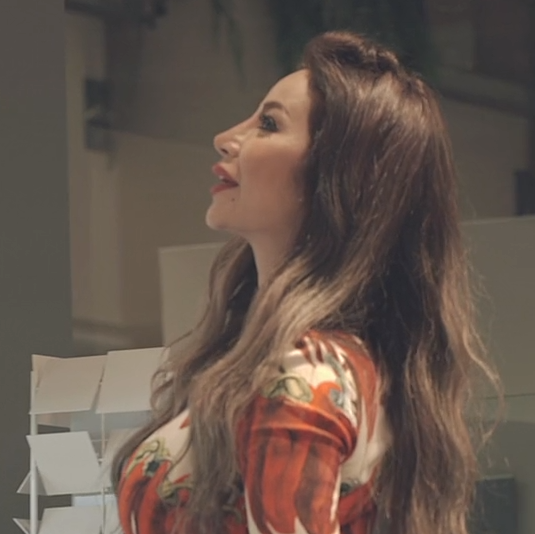 Lojain Omran Saudi Arabian television presenter and social media personality. She presents the show Good Morning Arabs! on MBC1 This file, which was originally posted to Elegance Home, was reviewed on 18 August 2018 by reviewer Leoboudv, who confirmed that it was available there under the stated license on that date. Vimeo: Home Elegance Home (Home view archived source)